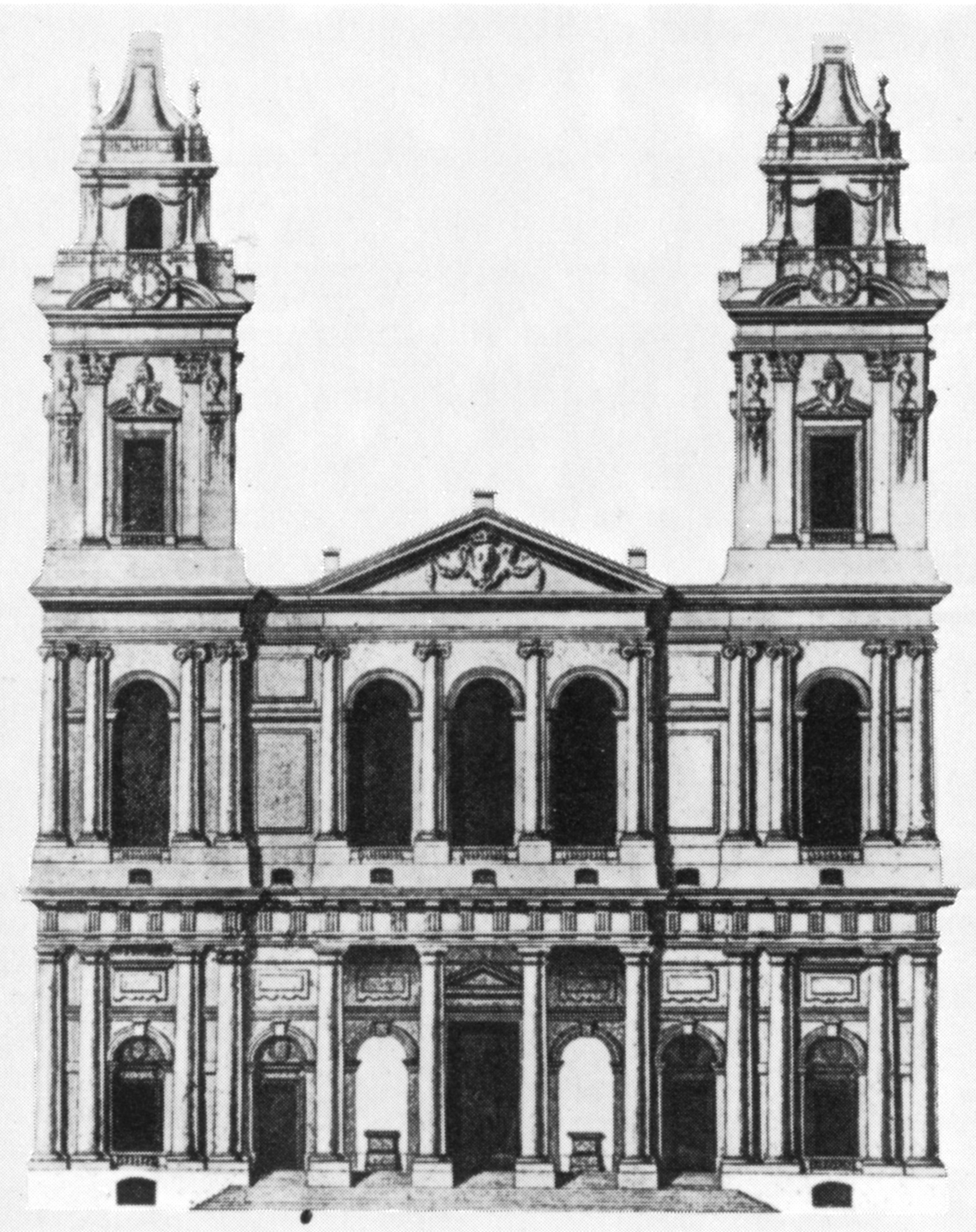 First design (1732, not executed) by Servandoni for the principal (west) facade of Saint-Sulpice